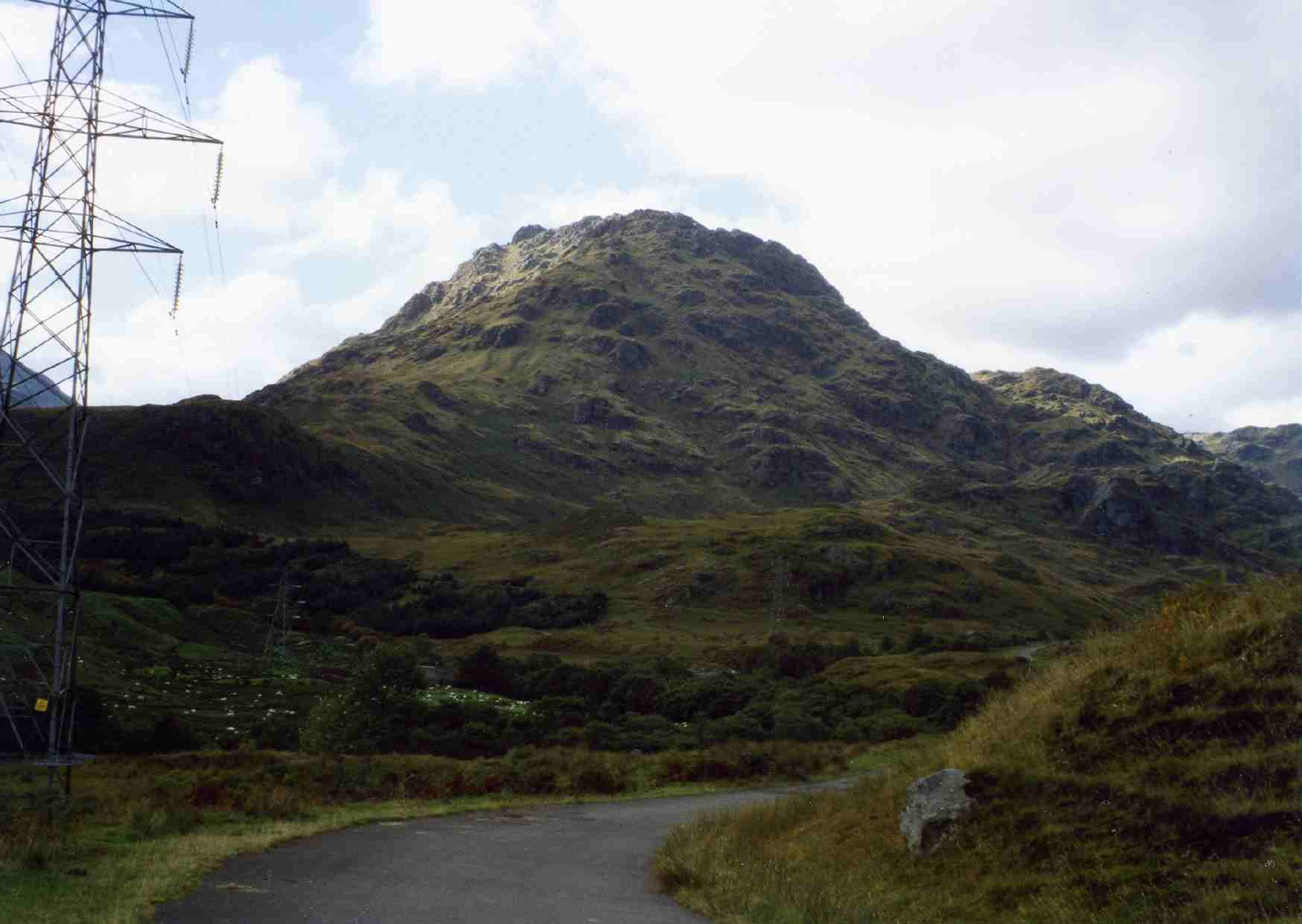 Ben Vane from Hydro road